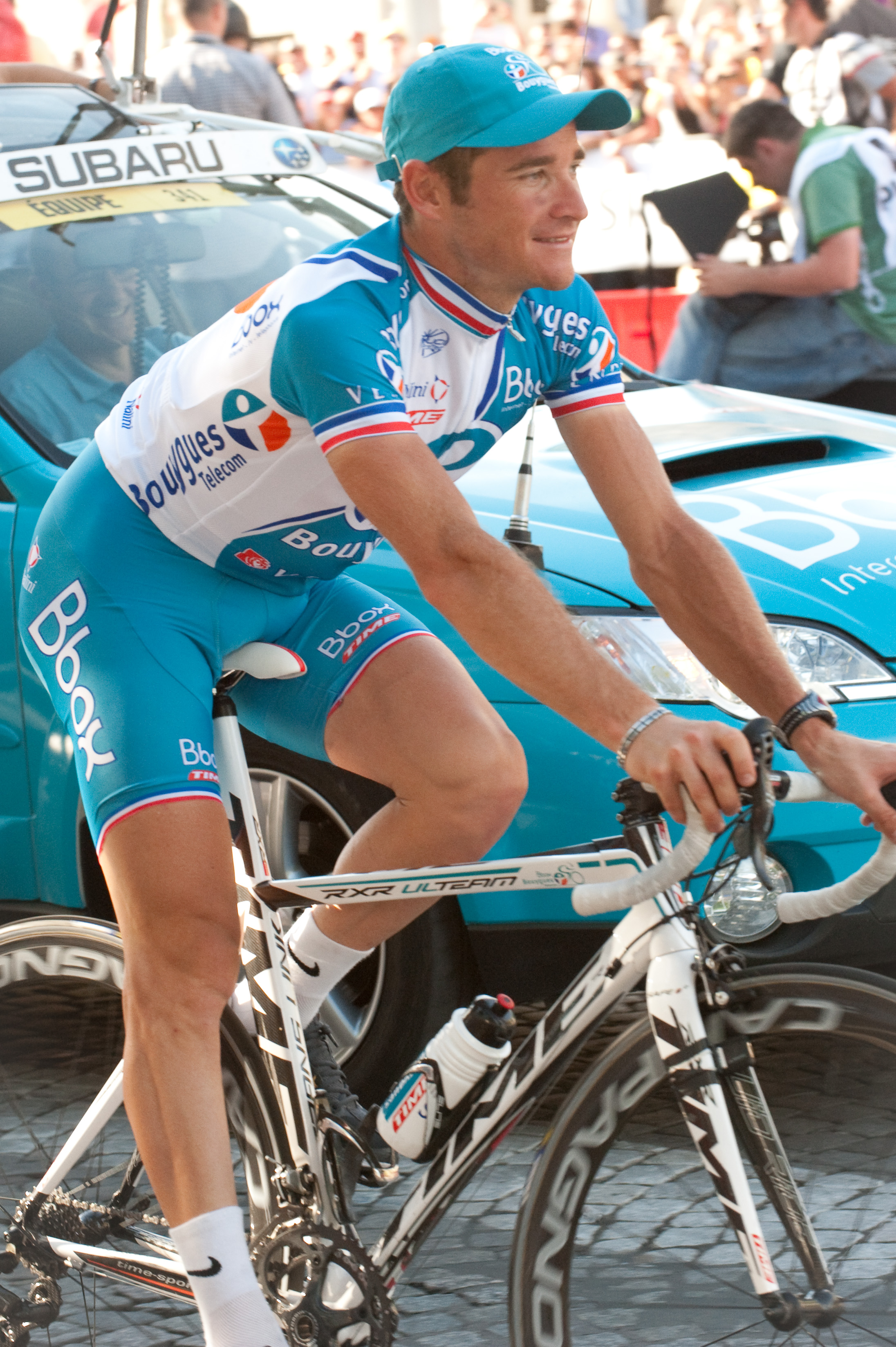 French cyclist Thomas Voeckler in Paris, during the 2009 Tour de France.